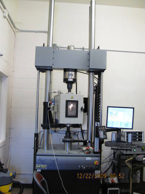 NRCC Ottawa, Ontario, Canada: small scale furnace capable of 600°C and of applying a static load during the heat test.